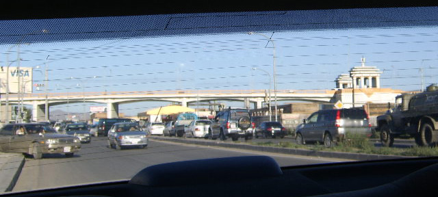 Peace Bridge over the river Dundgol, the railway and the Sunny Rd in Ulaanbaatar. Photographer Gantuya